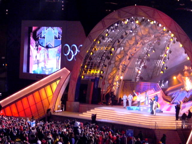 Ski Jumping medals being awarded at the Salt Lake Medal Plaza during the 2002 Winter Olympics.